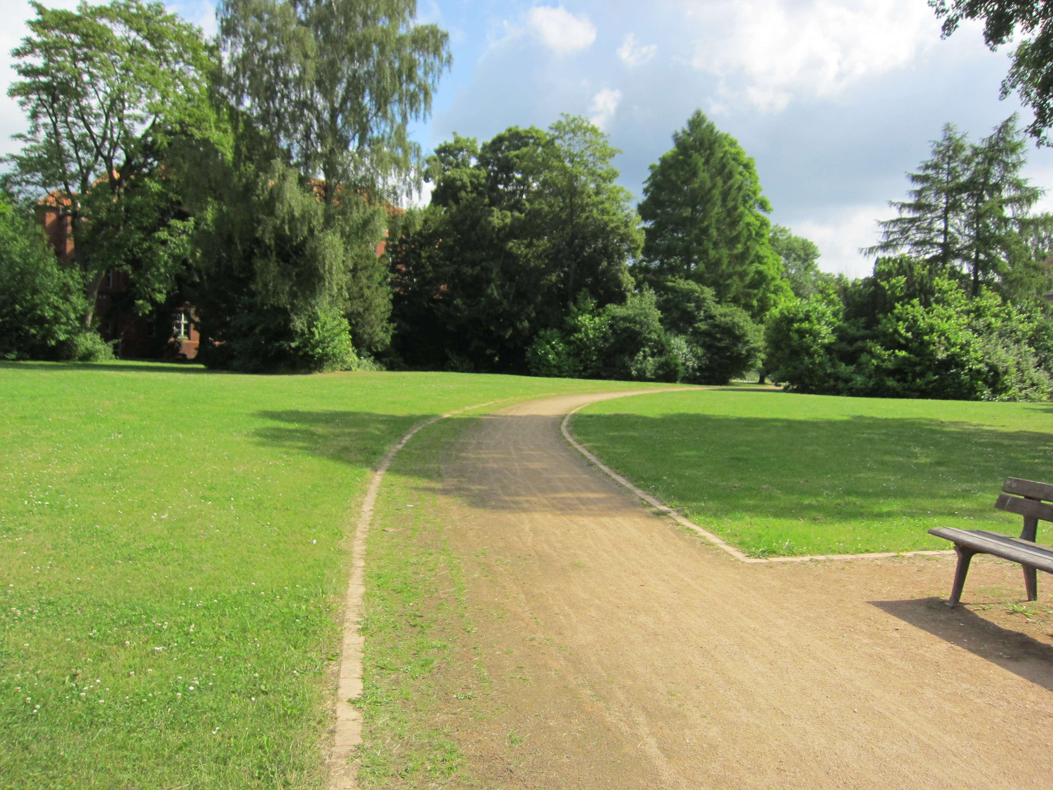 Park "Anscharpark" in Kiel-Wik